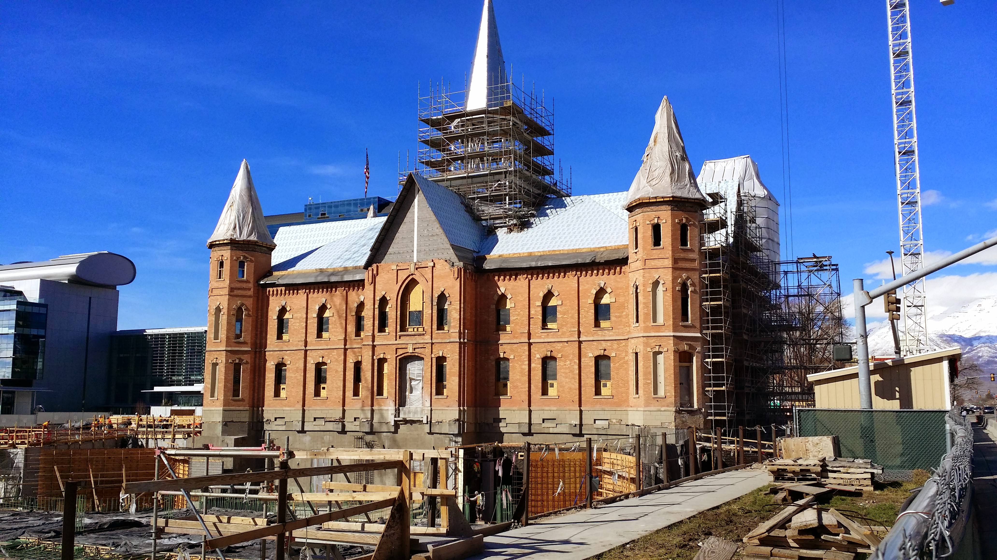 Provo Tabernacle being restored and renovated in preparation for becoming the Provo City Center Temple.